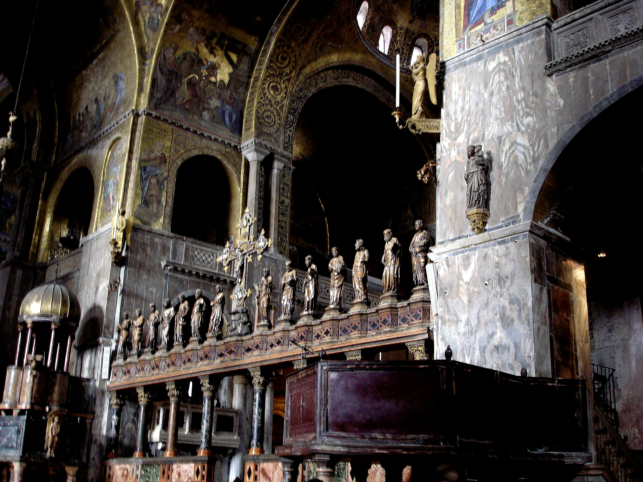 The iconostase in Saint Marc's Basilica, Venice, with the twelve apostles and Mother Mary and Markus over a collonade. Artist: Dalla Masegne (Jacobello and Piere Paolo), the Holy Cross in the middle.